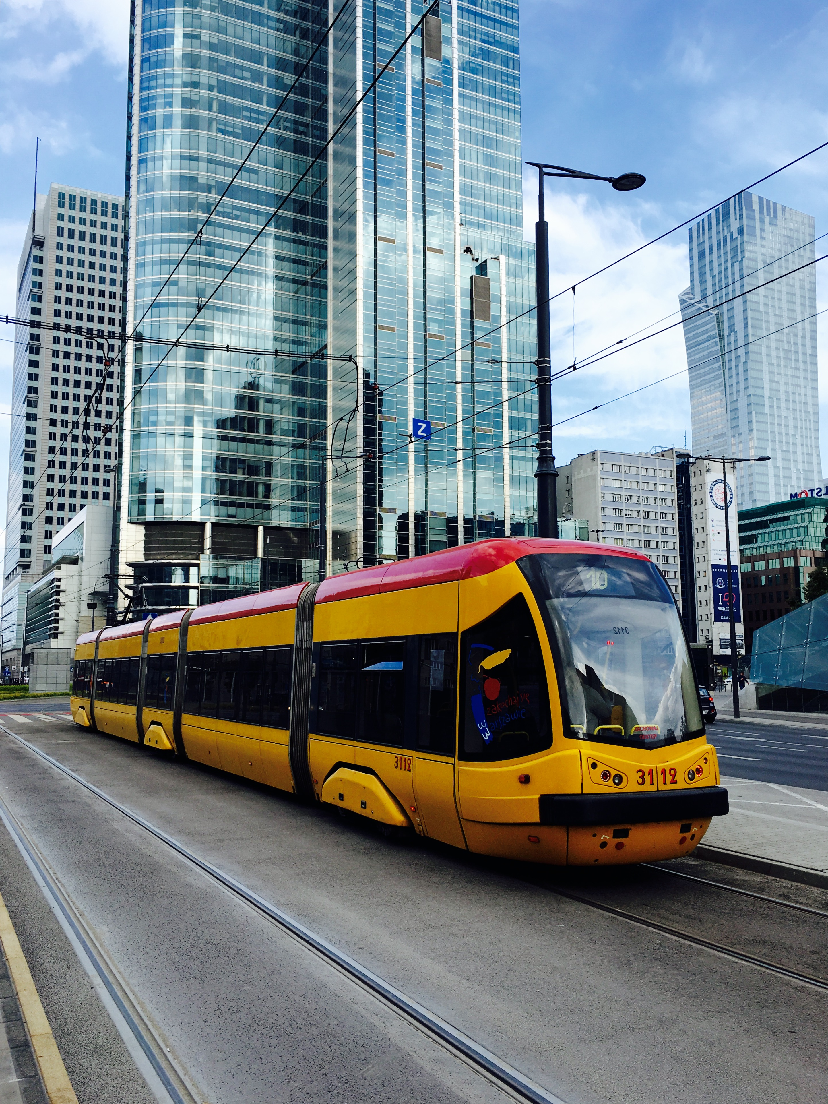 Pesa 120N, route no. 10 tram at United Nations Roundabout stop in Warsaw